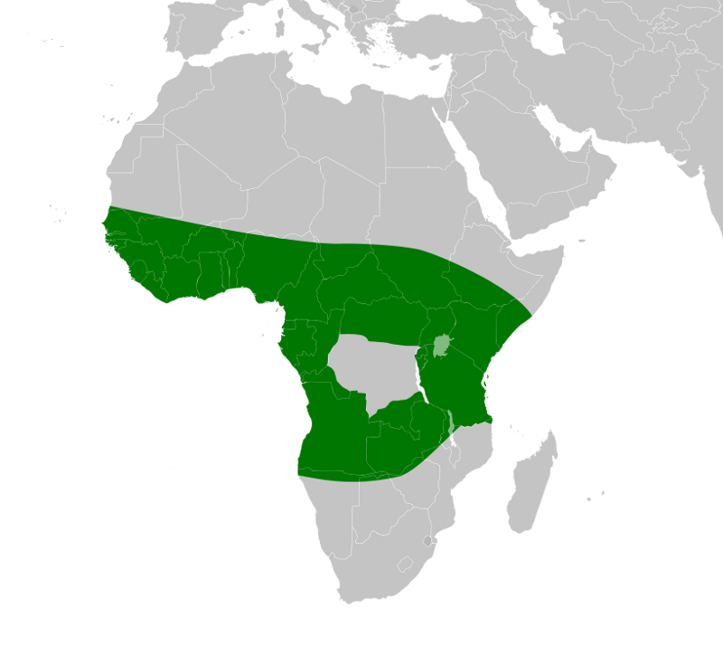 Range of Naja nigricollis in Africa.